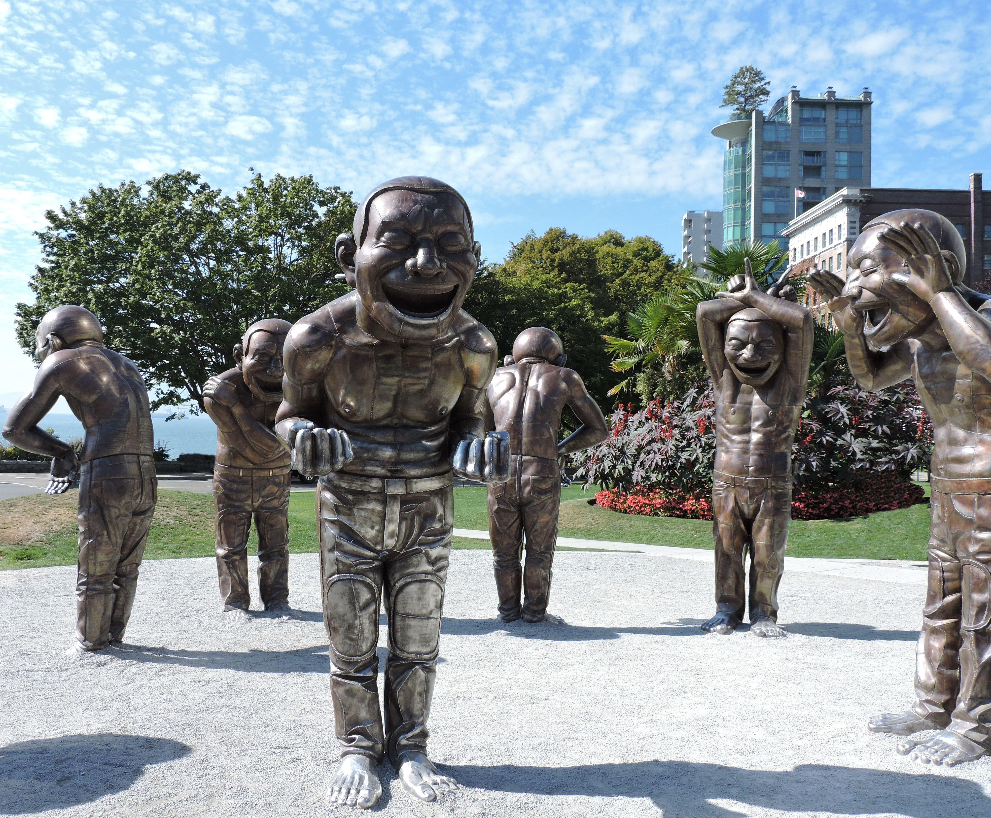 A-maze-ing Laughter sculpture by Yue Minjun, Morton Park, West End, Vancouver